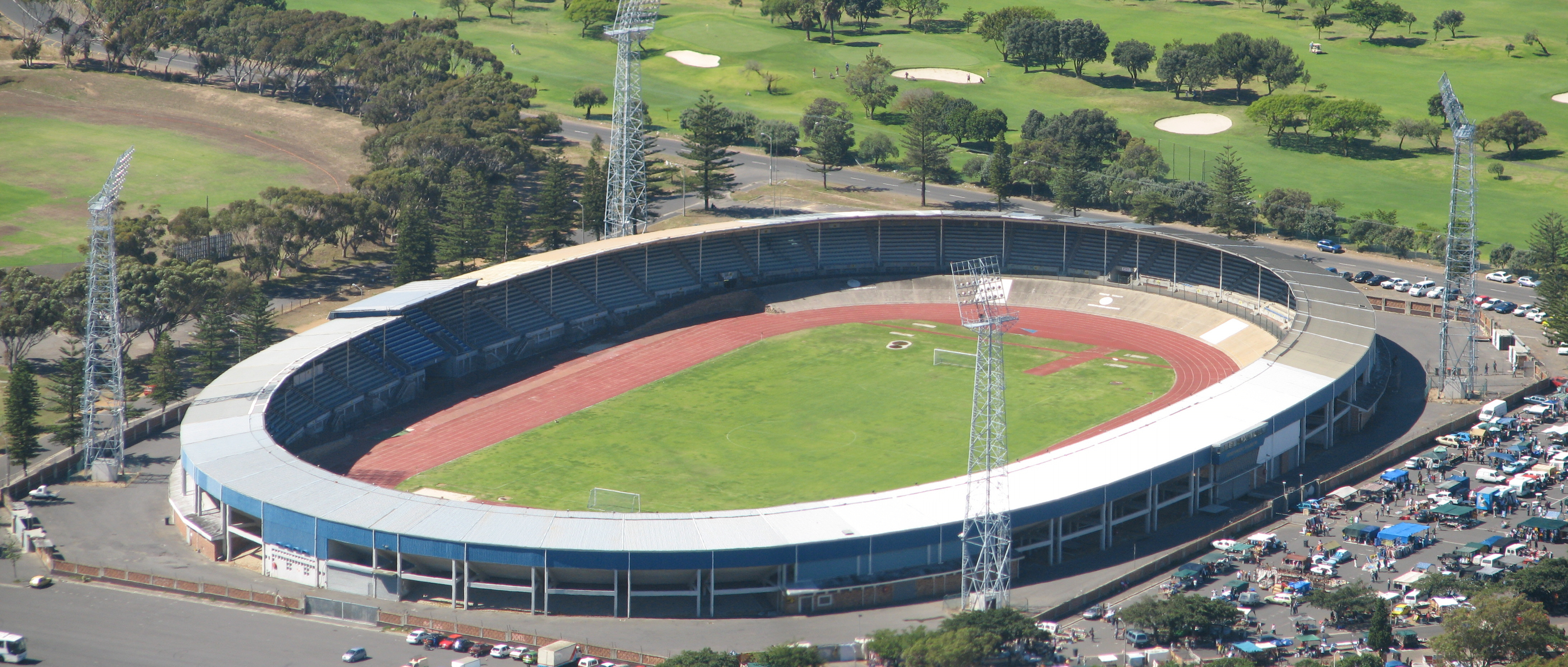 Soon to be demolished to make way for the Soccer 2010 World Cup; Soccer Stadium.